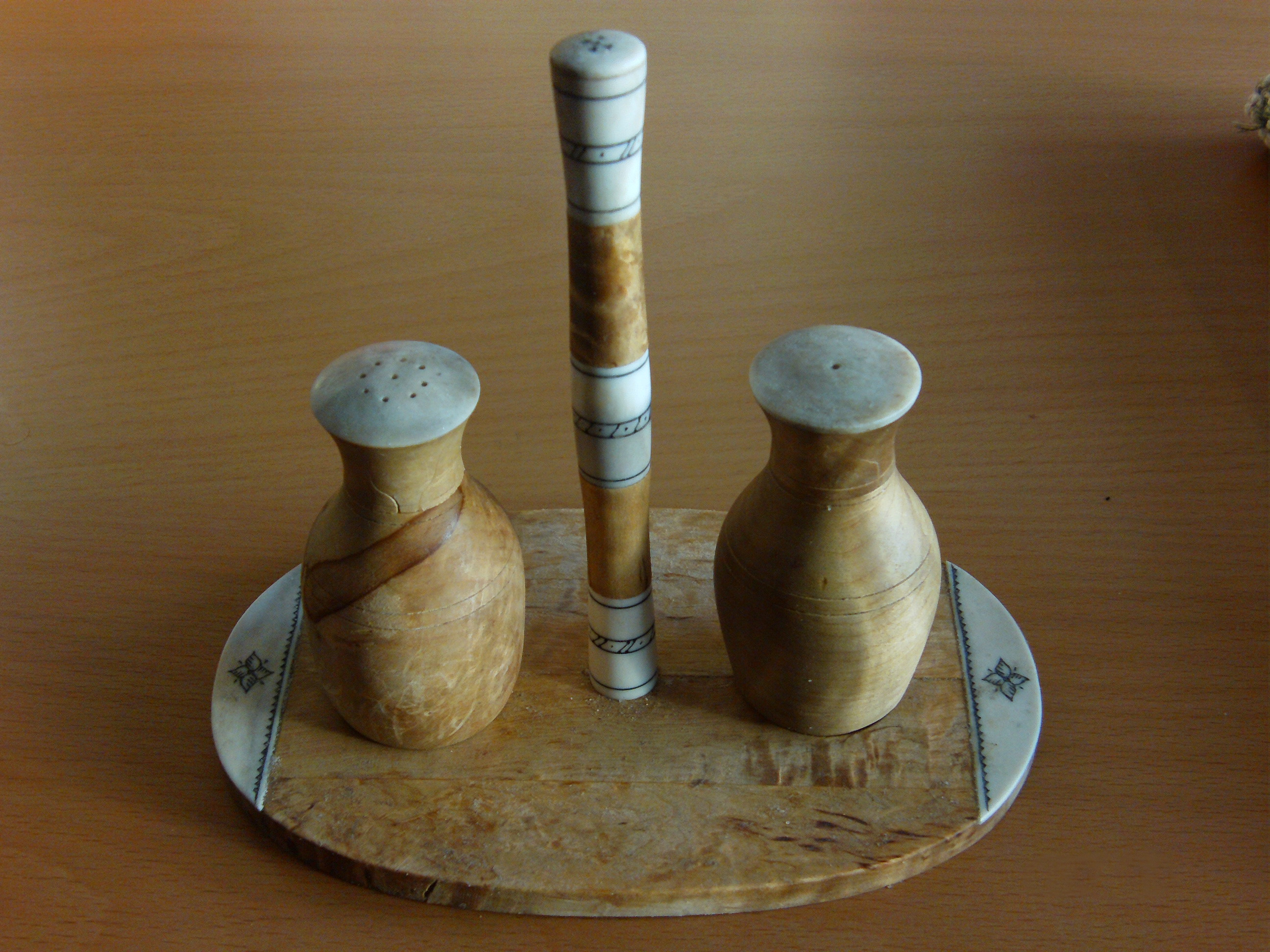 Duodji salt cellar